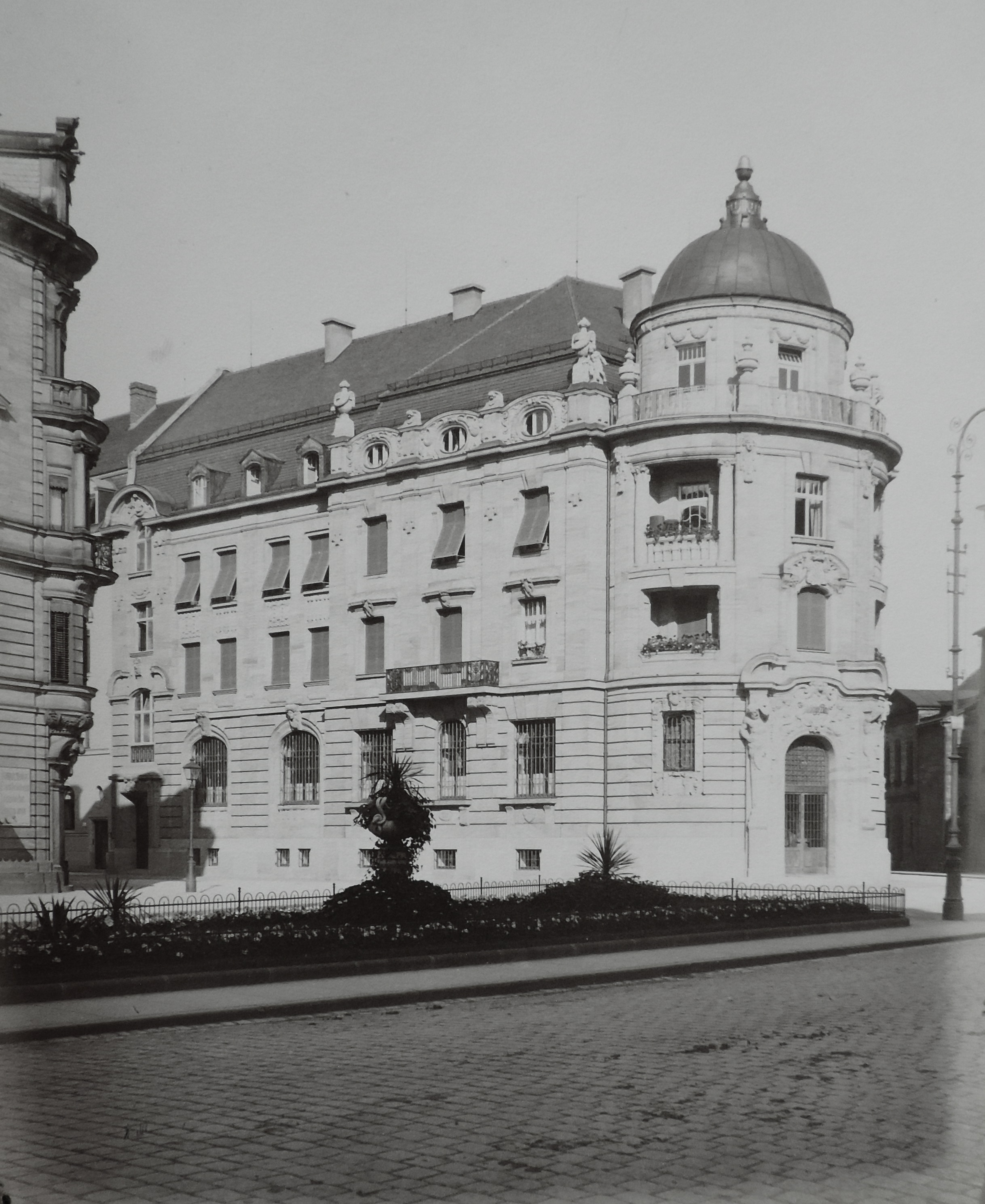 Views and photos of Bayreuth, Germany, gifted to Ferdinand I of Bulgaria to commemorate his 25-year rule. Bank office.